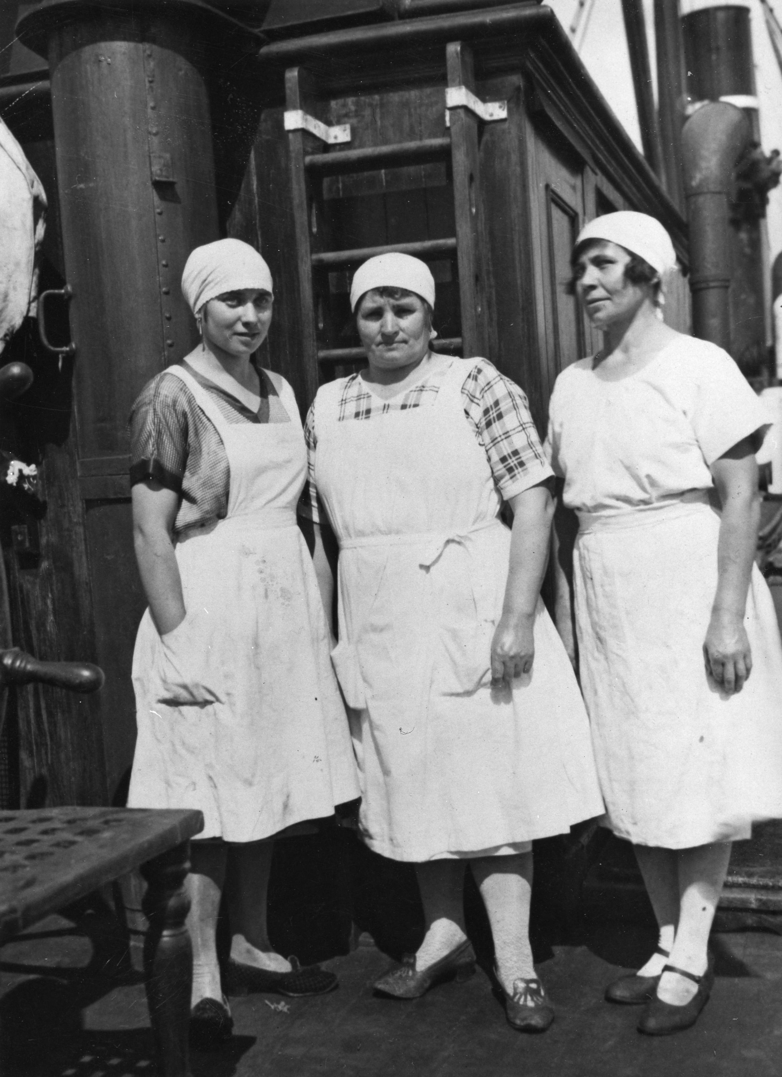 Catering personnel onboard s/s Orion I, 1920's